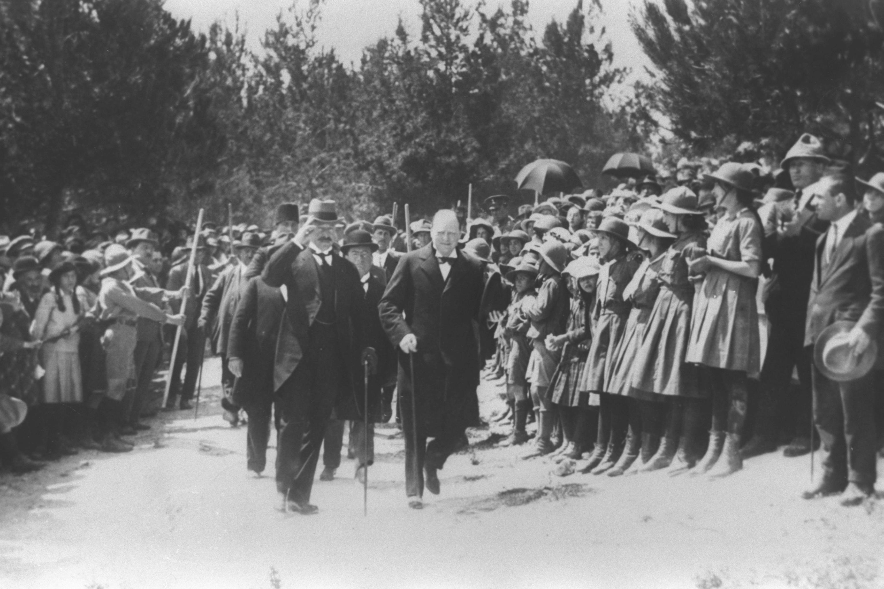 BRITISH HOME SECRETARY WINSTON CHURCHILL (R) ESCORTED BY HIGH COMMISSIONER HERBERT SAMUEL, IN JERUSALEM DURING THE BRITISH MANDATE ERA IN THE LAND OF ISRAEL. שר המושבות הבריטי וינסטון צ'רצ'יל (מימין) מלווה בנציב העליון הבריטי הרברט סמואל, בירושלים, בתקופת שילטון המנדט בארץ ישראל.